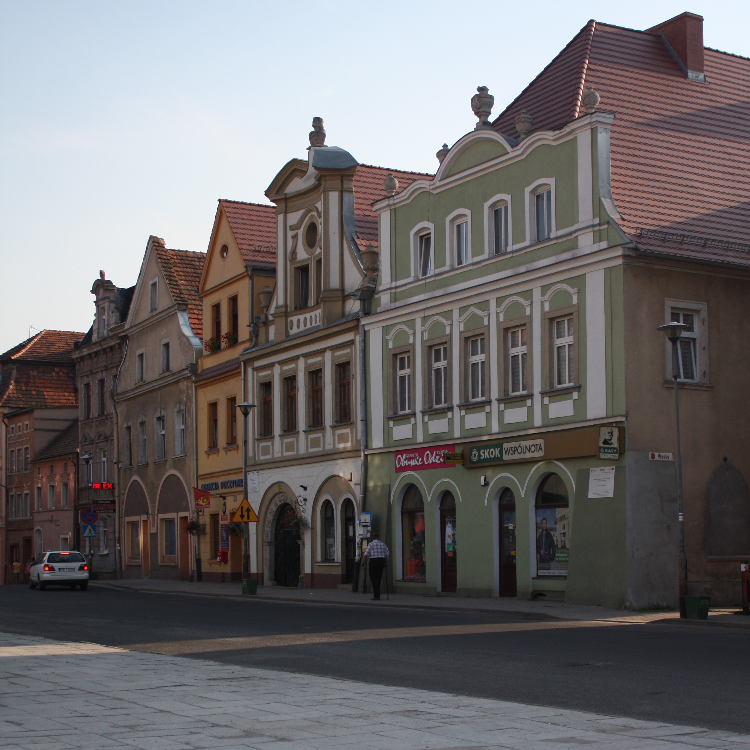 This photo of Lower Silesian Voivodeship was taken during Wikiexpedition 2013 set up by Wikimedia Polska Association. You can see all photographs in category Wikiekspedycja 2013. English | Polski | +/−